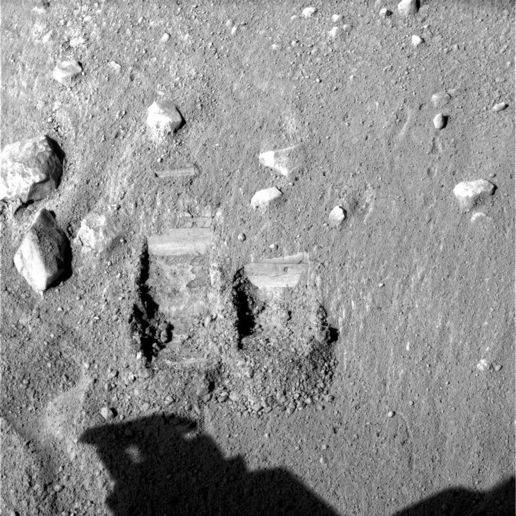 NASA's Phoenix Mars Lander's Surface Stereo Imager took this image on Sol 11 (June 5, 2008), the eleventh day after landing. It shows the trenches dug by Phoenix's Robotic Arm. The trench on the left is informally called "Dodo" and was dug as a test. The trench on the right is informally called "Baby Bear." The sample dug from Baby Bear will be delivered to the Phoenix's Thermal and Evolved-Gas Analyzer, or TEGA. The Baby Bear trench is 9 centimeters (3.1 inches) wide and 4 centimeters (1.6 inches) deep. The Phoenix Mission is led by the University of Arizona, Tucson, on behalf of NASA. Project management of the mission is by NASA’s Jet Propulsion Laboratory, Pasadena, Calif. Spacecraft development is by Lockheed Martin Space Systems, Denver.